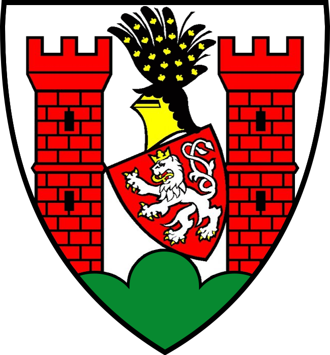 confirmed 11 August 2004.